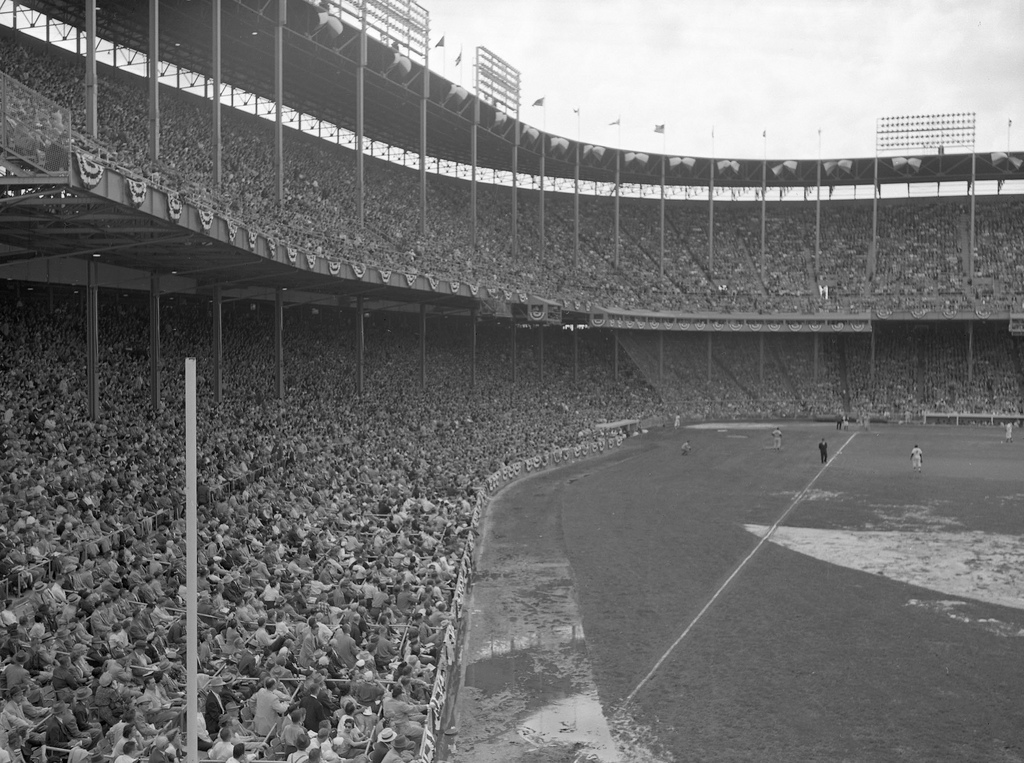 Collection Name: Commerce and Industrial Development Collection Photographer/Studio: Unknown Description: View of the left field line and the crowd at Municipal Stadium, Kansas City. Coverage: United States - Missouri - Jackson - Kansas City Date: Not determined Rights: Copyright is in the public domain. Credit: Courtesy of Missouri State Archives Image Number: CID_024_118 Institution: Missouri State Archives